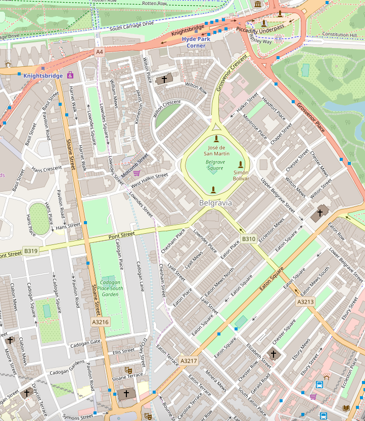 Map of Belgravia, London This map of Royal Borough of Kensington and Chelsea & City of Westminster was created from OpenStreetMap project data, collected by the community. This map may be incomplete, and may contain errors. Don't rely solely on it for navigation.